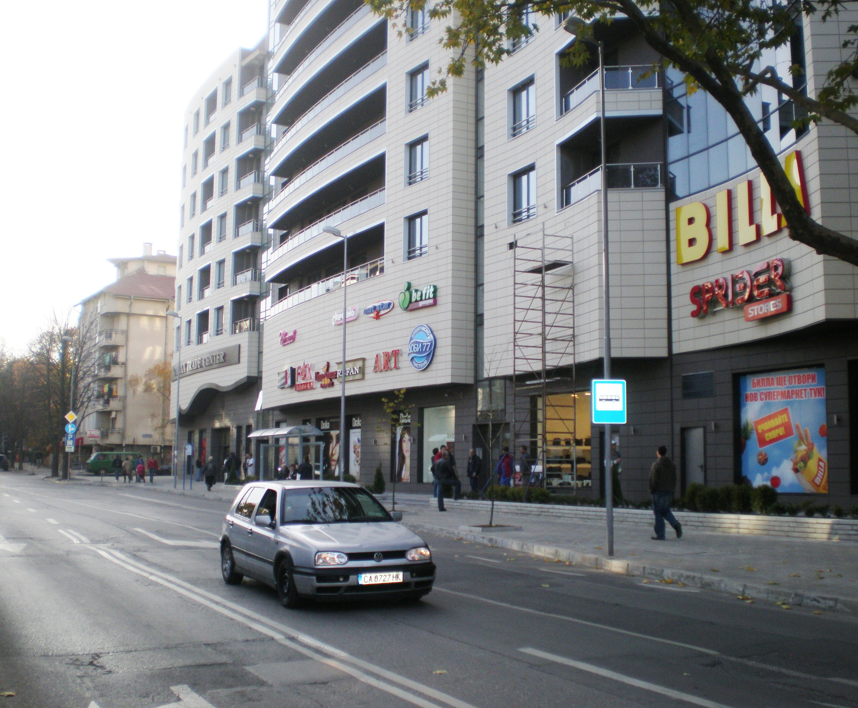 Nicolaus Copernicus street, Geo Milev district, Sofia